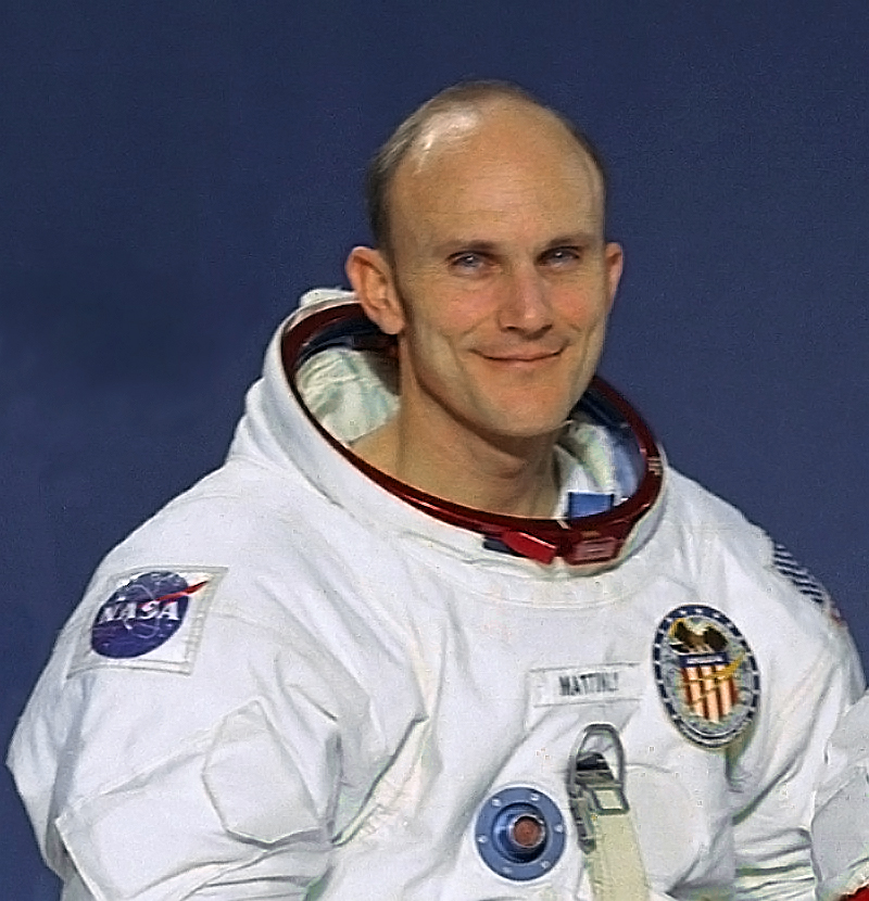 Thomas Ken Mattingly